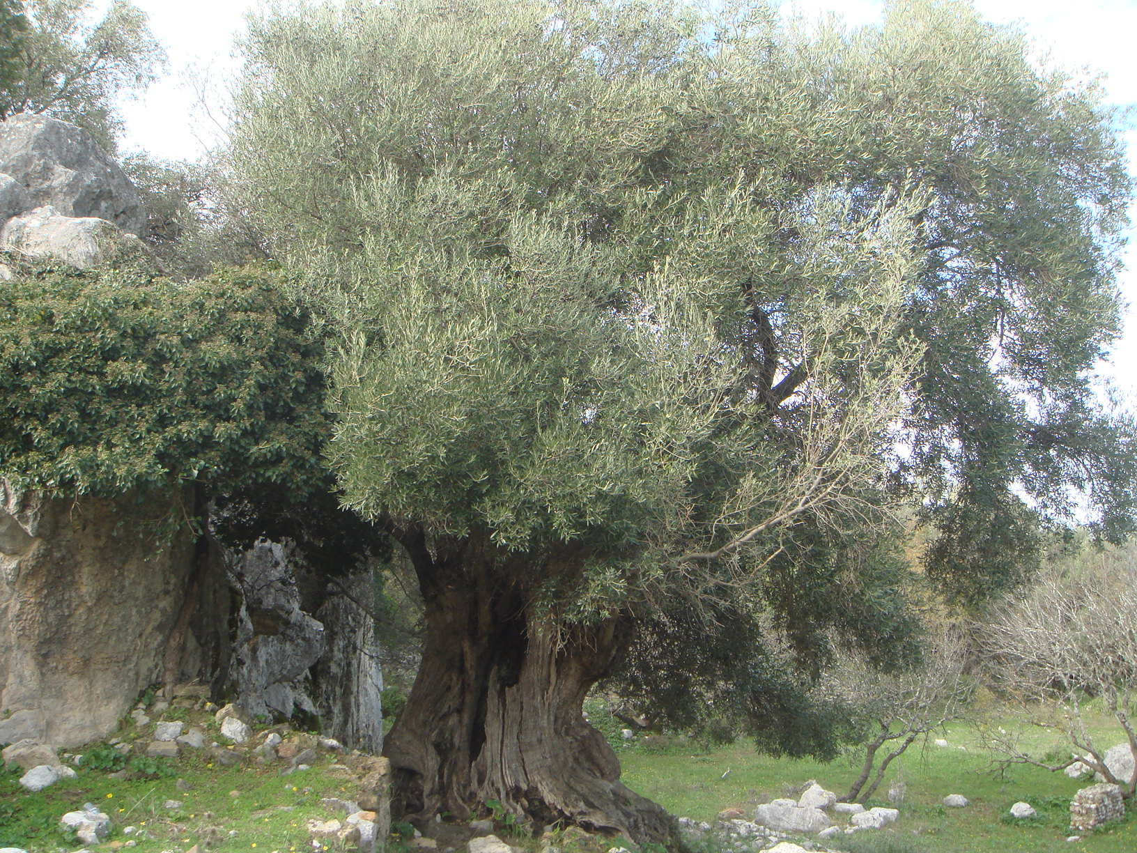 (Olea europaea var. sylvestris) at Ocuri, near Ubrique, (Cádiz), Spain.